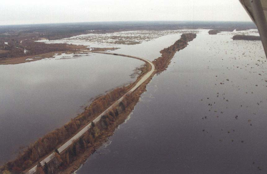 Connecting road 8523 (Olhavantie) crossing the Oijärvi lake in the village of Oijärvi in Ii, Finland.